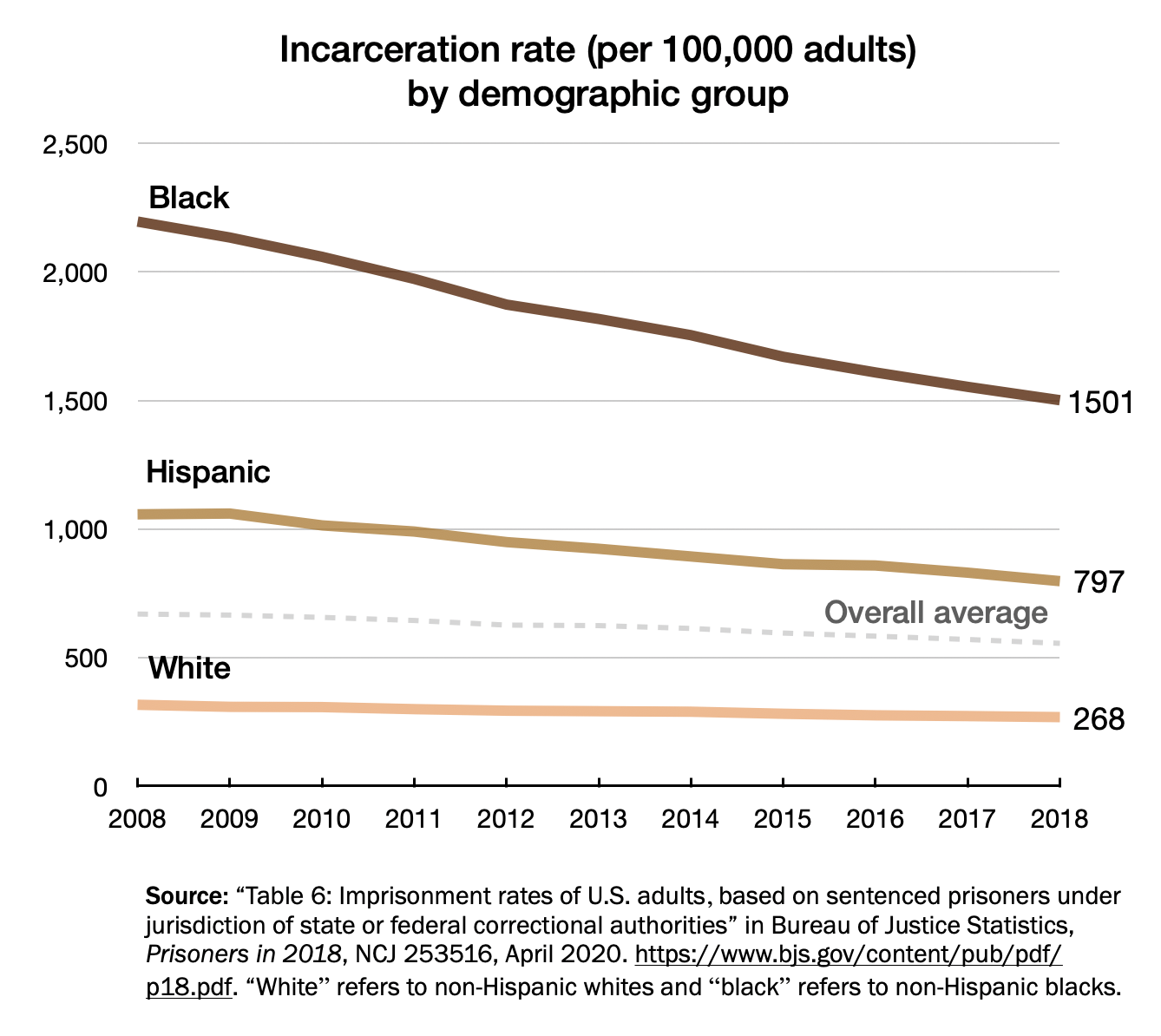 Line graph comparing the United States incarceration rate, per 100,000 adults, among Black, Hispanic, and White adults. Source: “Table 6: Imprisonment rates of U.S. adults, based on sentenced prisoners under jurisdiction of state or federal correctional authorities” in Bureau of Justice Statistics, Prisoners in 2018, NCJ 253516, April 2020. “White” refers to non-Hispanic whites and “black” refers to non-Hispanic blacks.